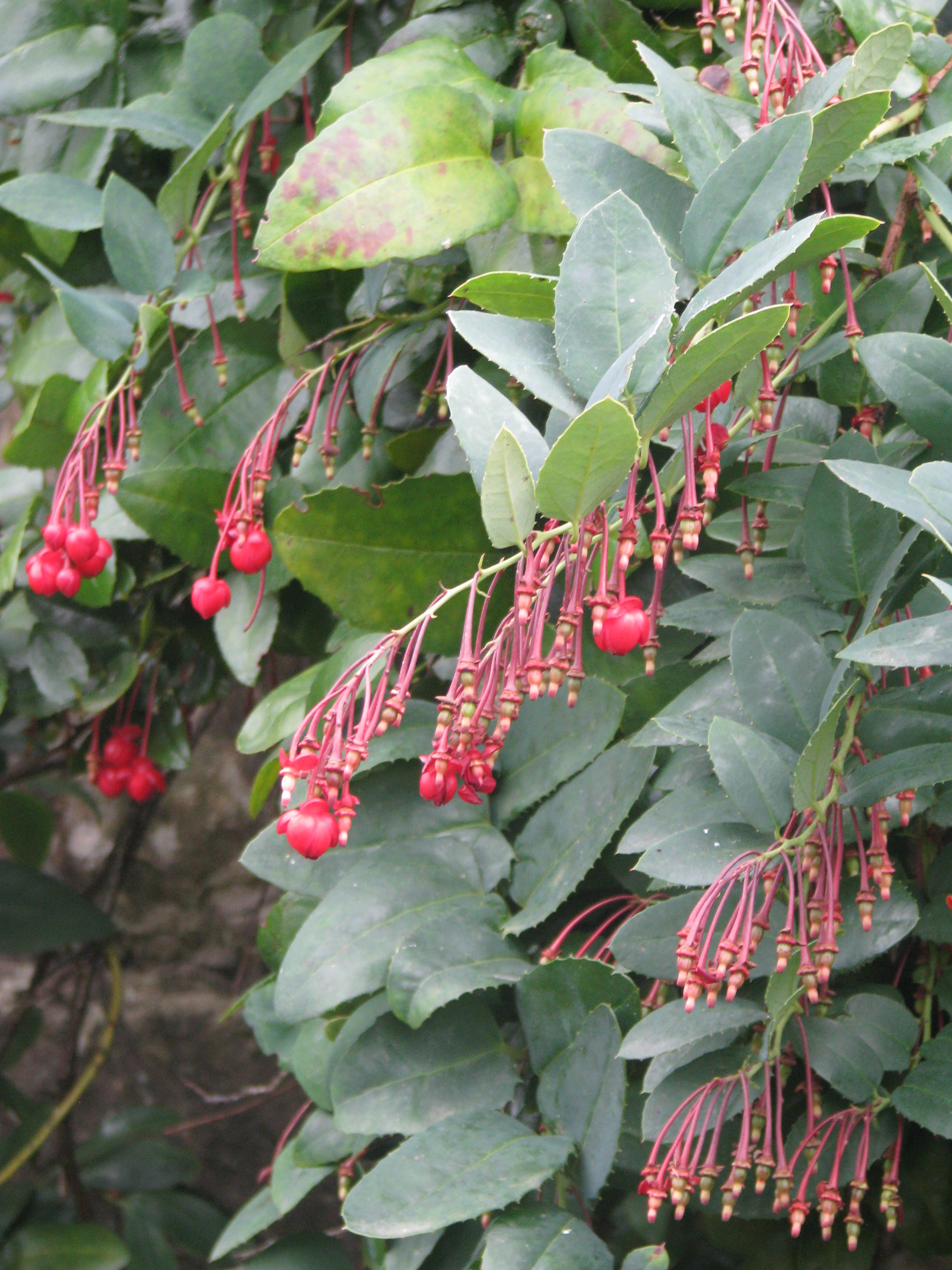 Berberidopsis corallina